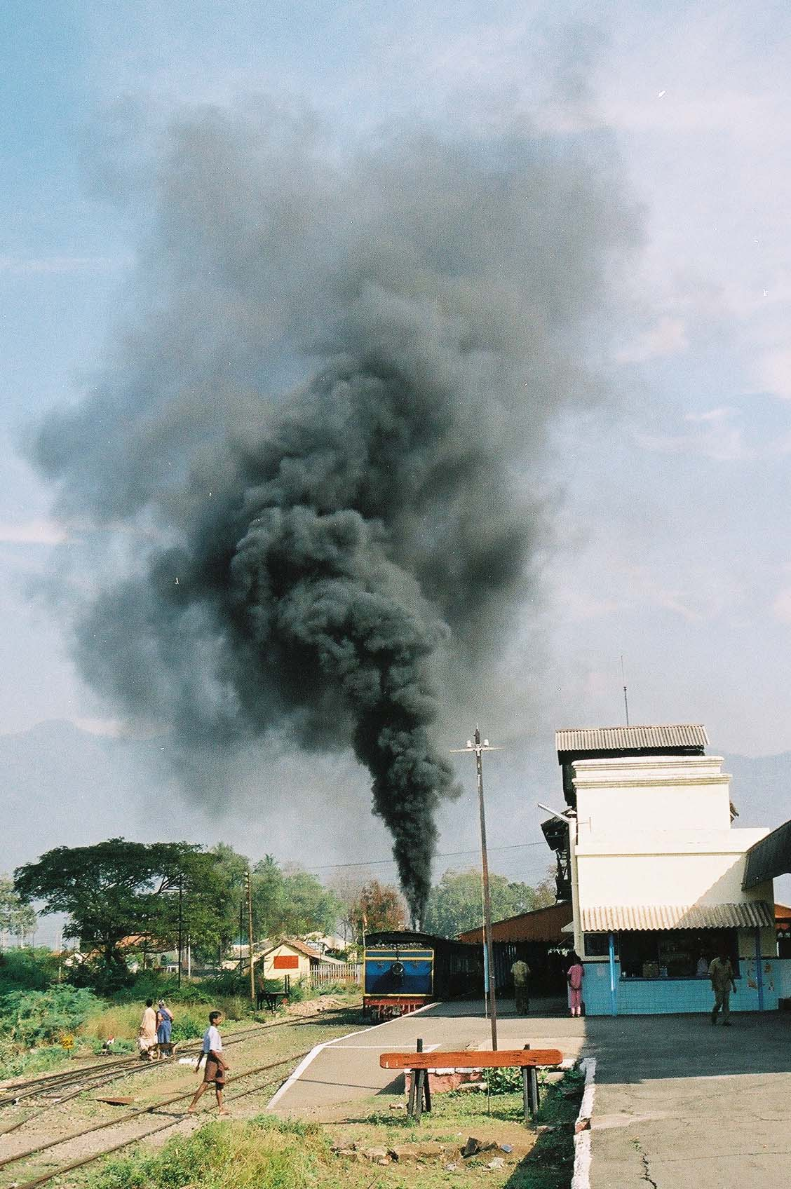 Nilgiri Mountain Railway train waits to depart from Mettupaliyam Station. The locomotive is No.37392. 26th February 2005 Photographer - A.M.Hurrell Camera - Minolta X700 (35mm film) Modified - Scanned by film developer. File size and definition changed using Adobe Photoshop 5.0LE